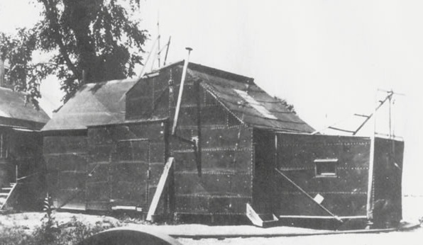 Photograph of Thomas Edison's film studio (the first in the world), the Black Maria, ca. 1893–1900